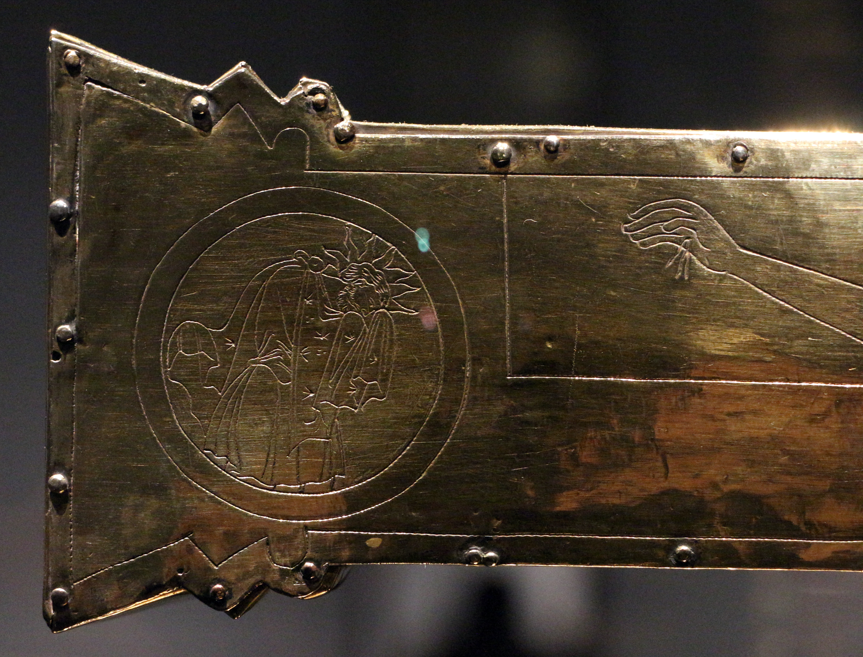 Domschatz, Aachen